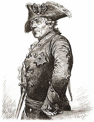 Friedrich II of Prussia, Drawing by Adolph Menzel